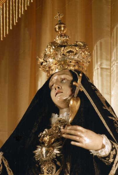 Stue of our lady of sorrows of taranto during september feast